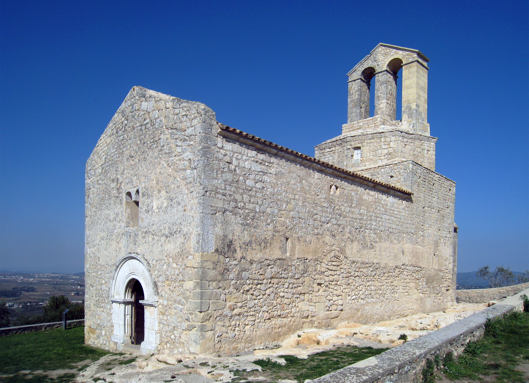 The romanesque church of Sant Miquel d’Olèrdola built in the 11th century in the comarca of Alt Penedés, Catalunya, Spain.